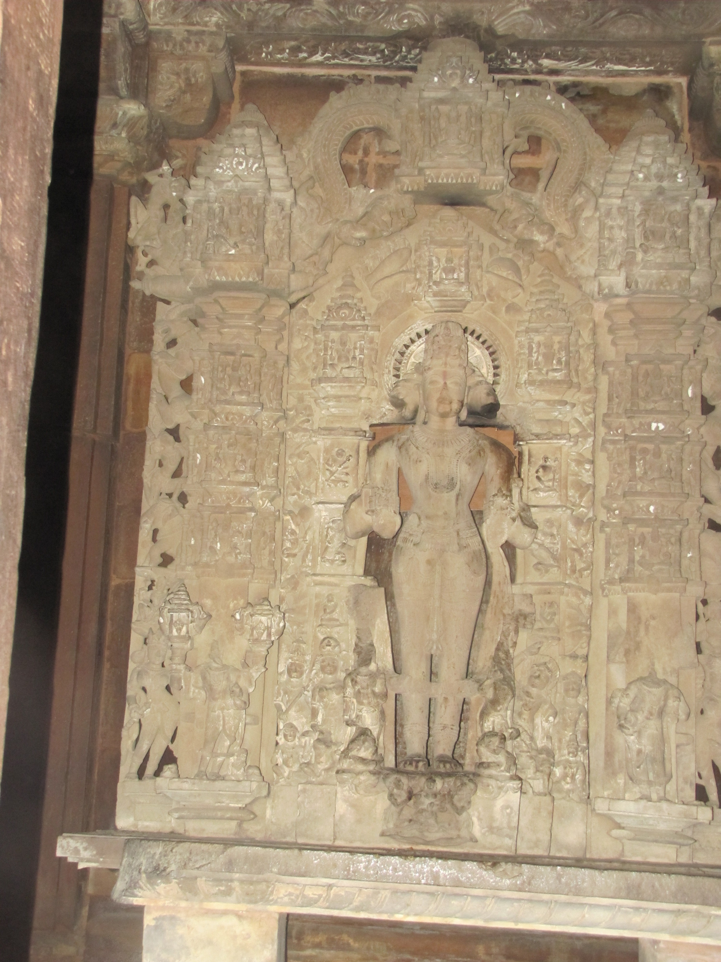 Khajuraho India, Lakshman Temple, Main Idol. The sculpture is the main Idol, located in the Sanctum of Lakshmana Temple. This sculpture is of tri-headed & four-armed sculpture of Vishnu. The central head is of human, and two sides of boar(depicting Varaha) and lion (depicting Narashima). Lakshamana temple is among Khajuraho Group of Monuments(a World Heritage Site)